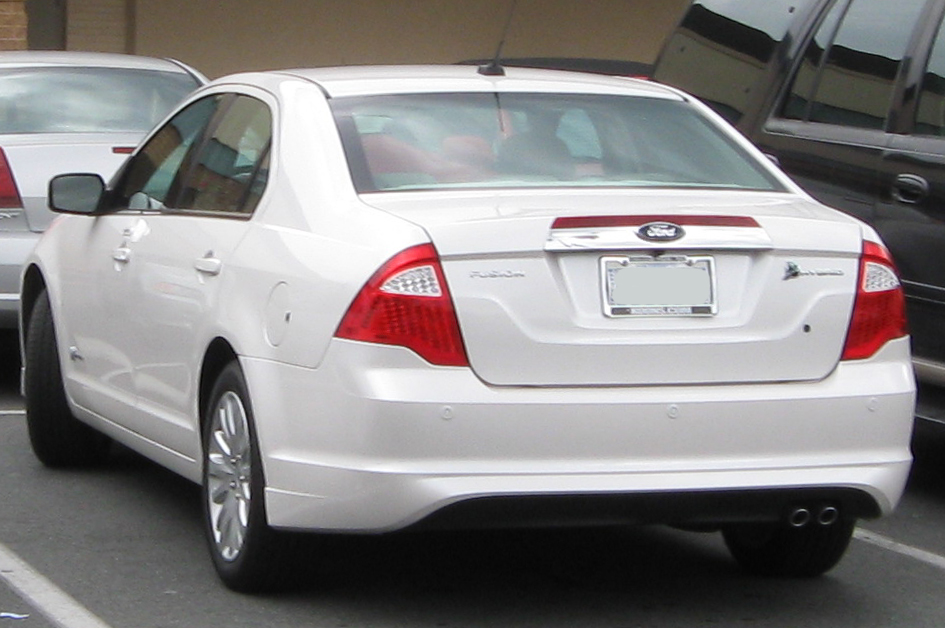 2010 Ford Fusion Hybrid photographed in Wheaton, Maryland, USA.